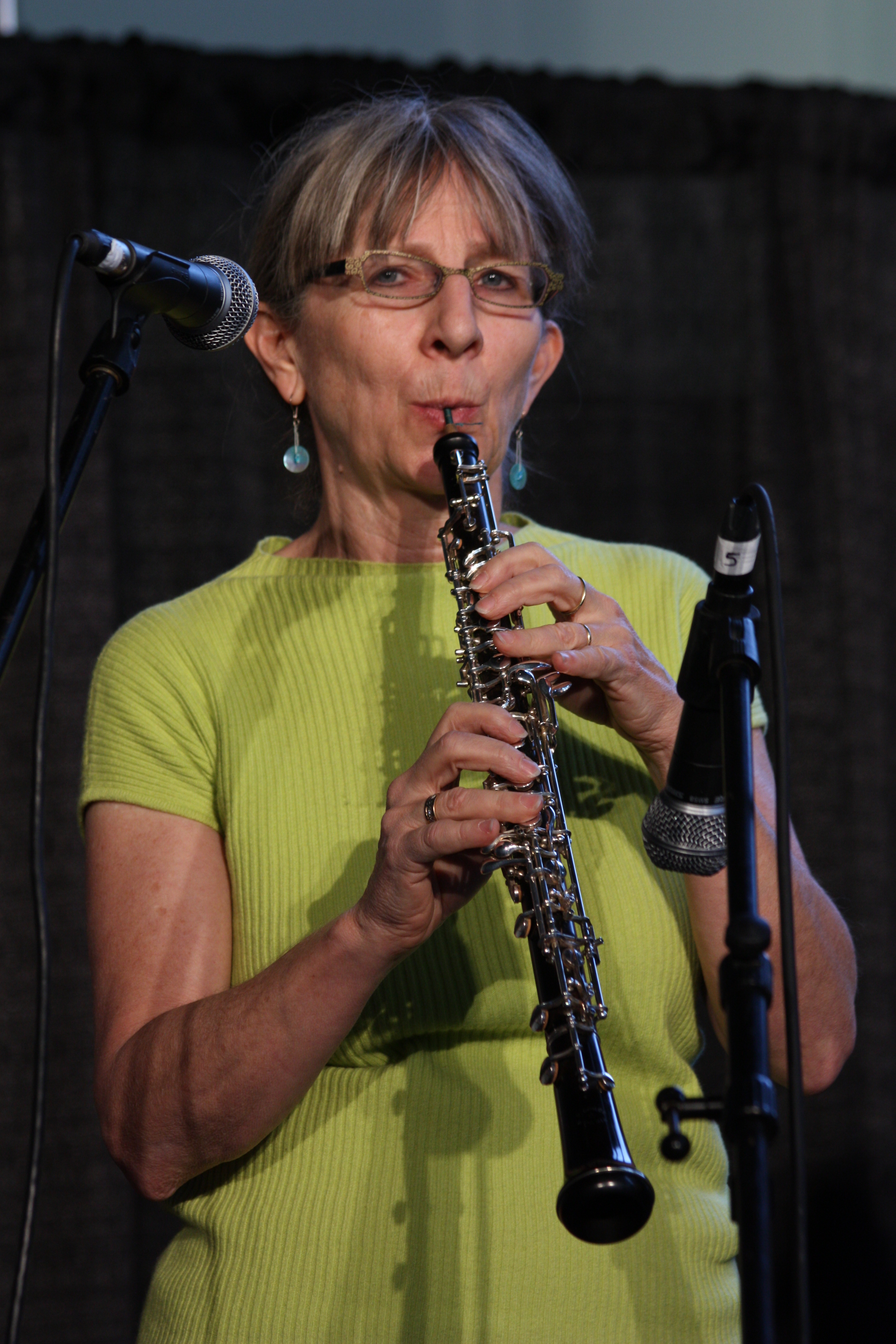 Nancy Rumbel, Folklife Cafe, Northwest Folklife Festival, Seattle